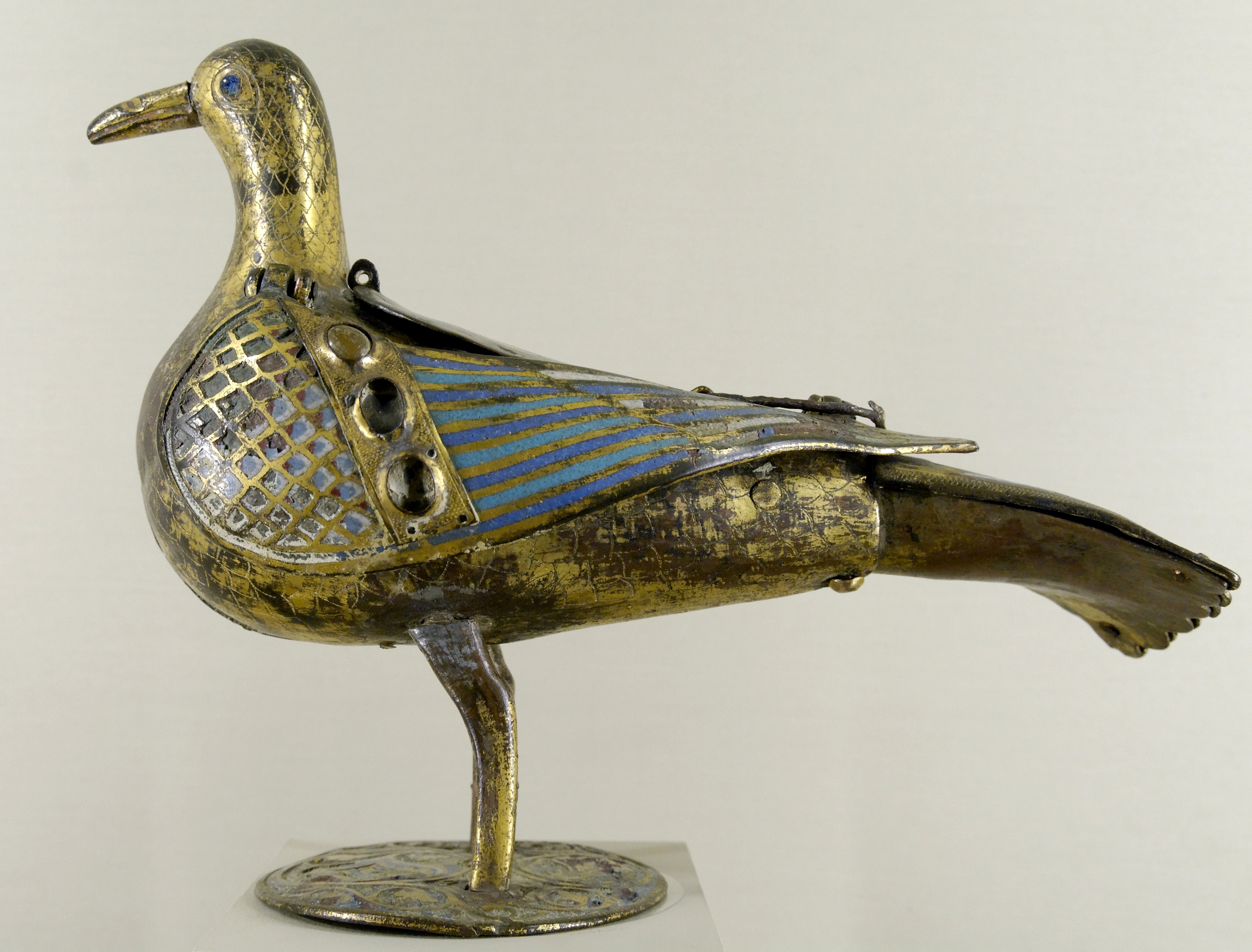 Eucharistic dove. Enamed and gilt champlevé copper, Limoges, mid-13th century.